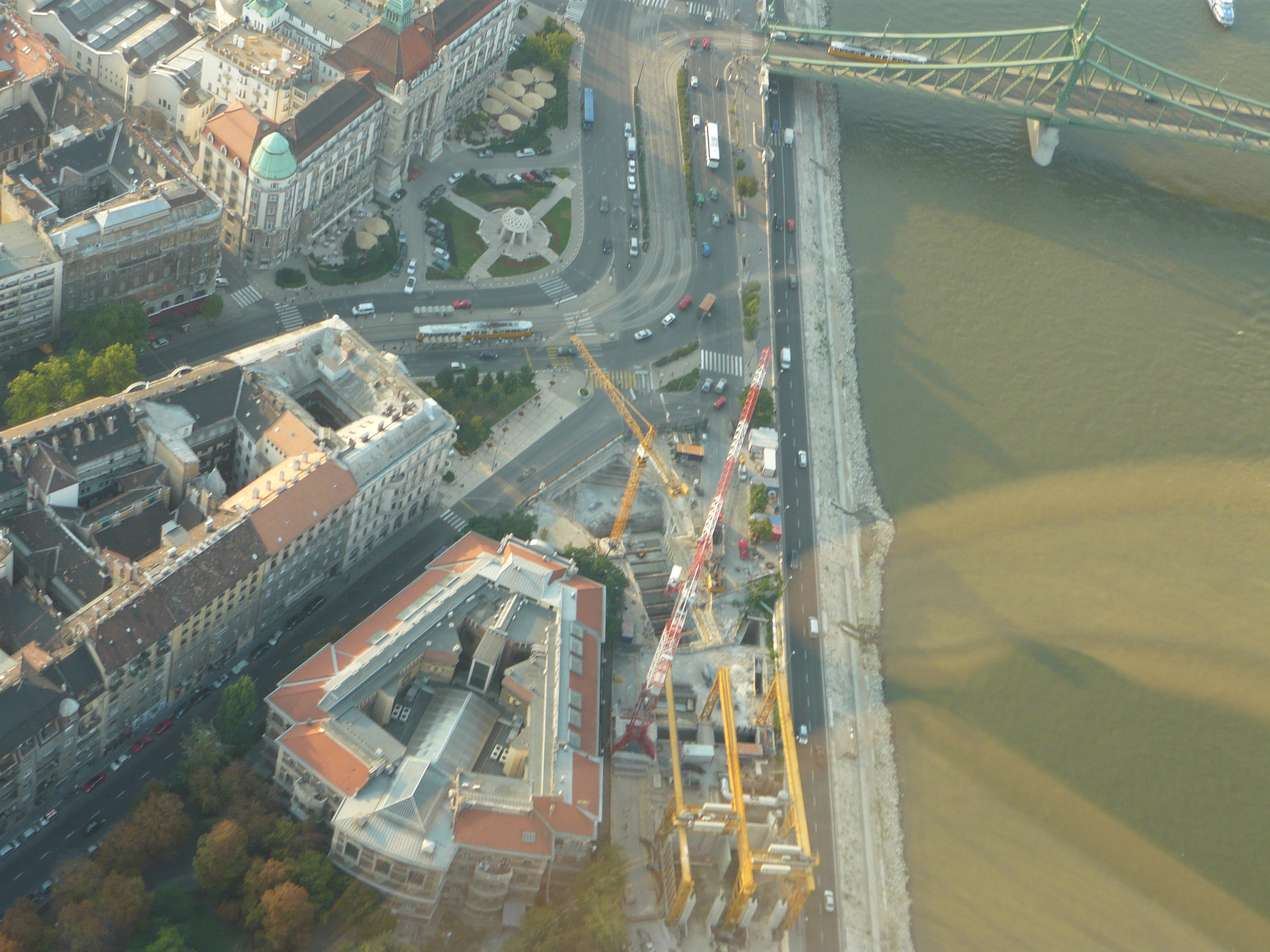 Construction of the Gellért square stop of the Metro 4 line of Budapest, Hungary (Air photo)